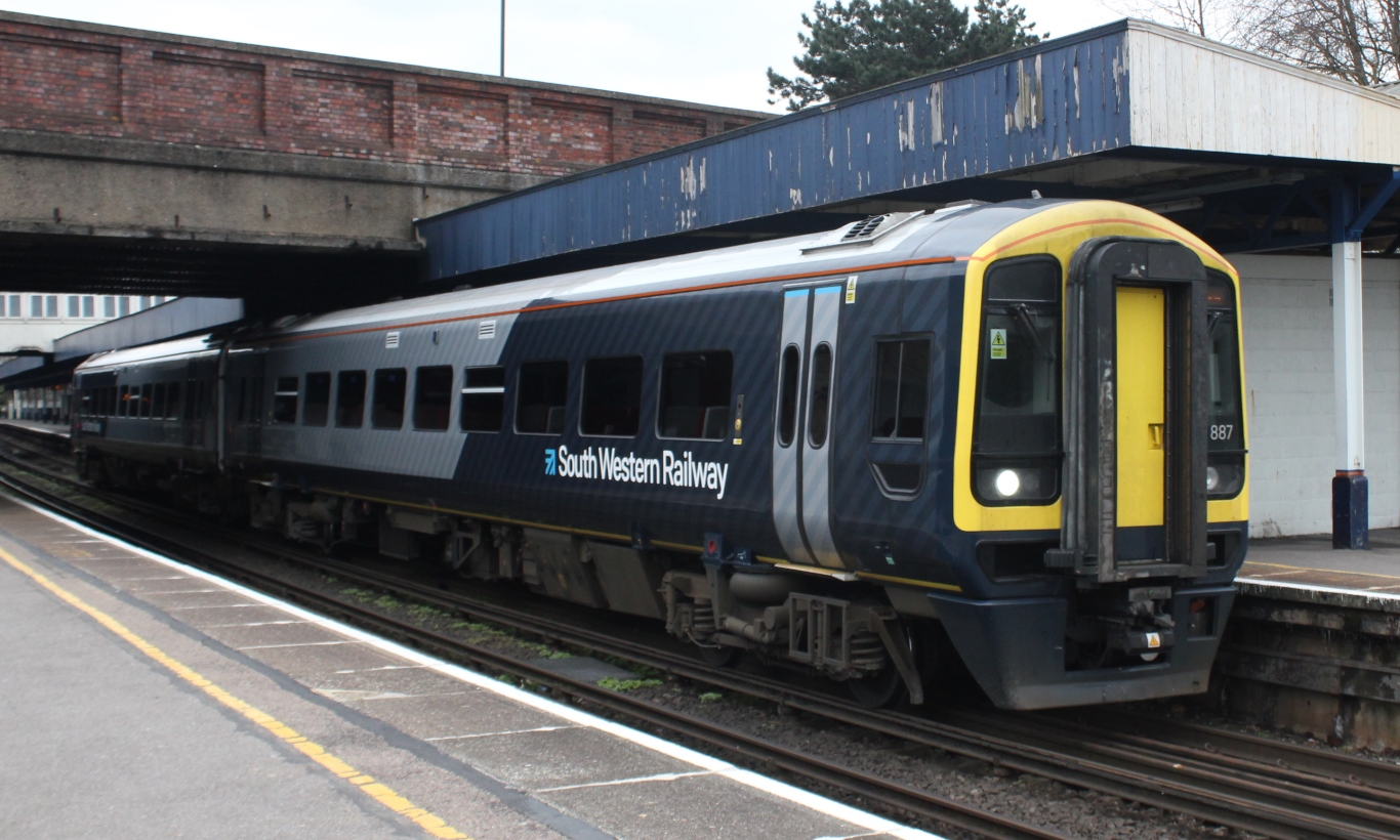 South Western Railway's diesel unit 158887 leaves Southampton Central station with a service from Romsey to Salisbury.